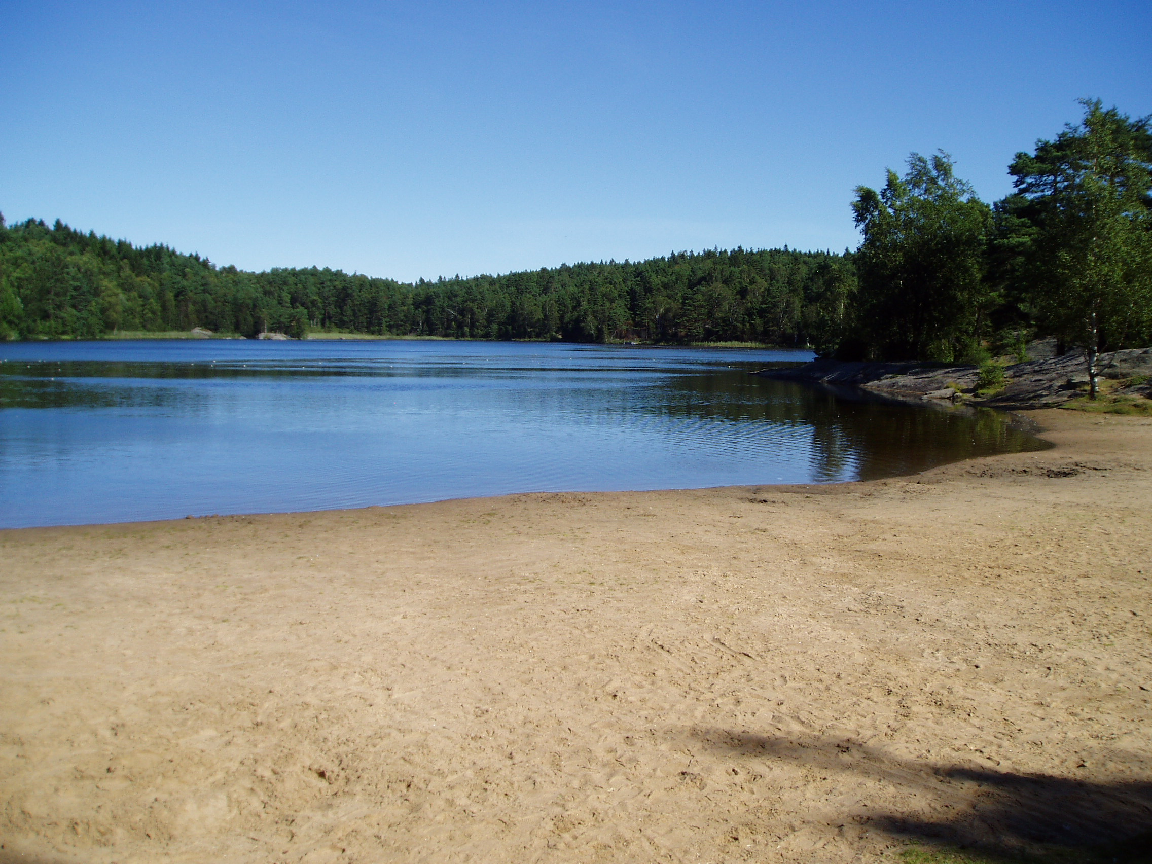 Stora Mölnesjön, lake in Västergötland